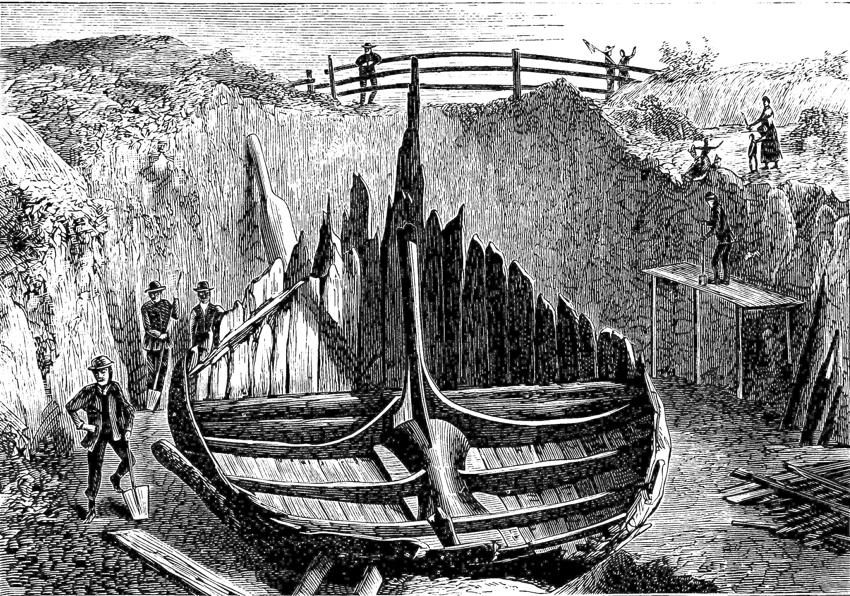 Ancient Scandinavian vessel_found in Gokstad Norway